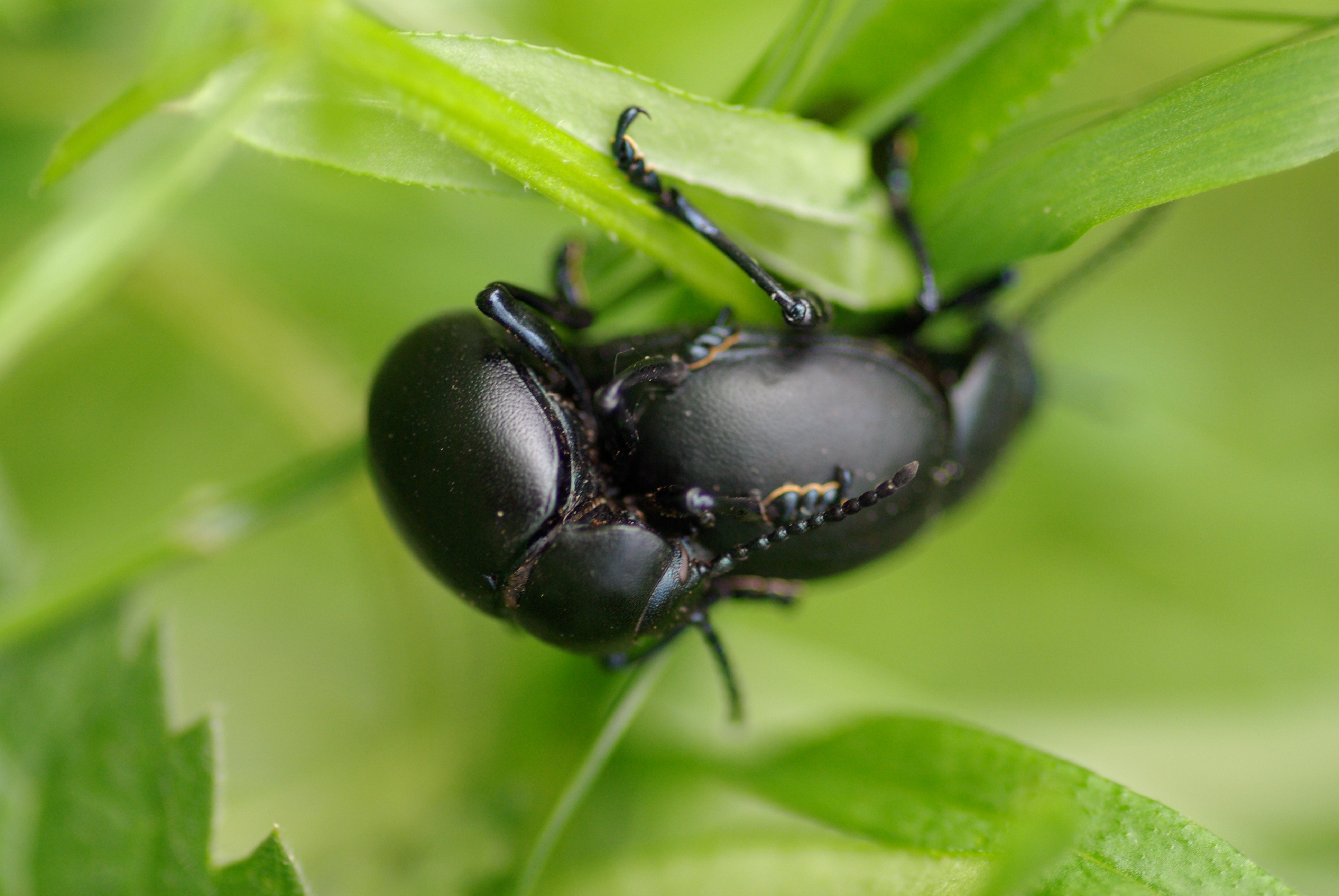 Timarcha tenebricosa are mating